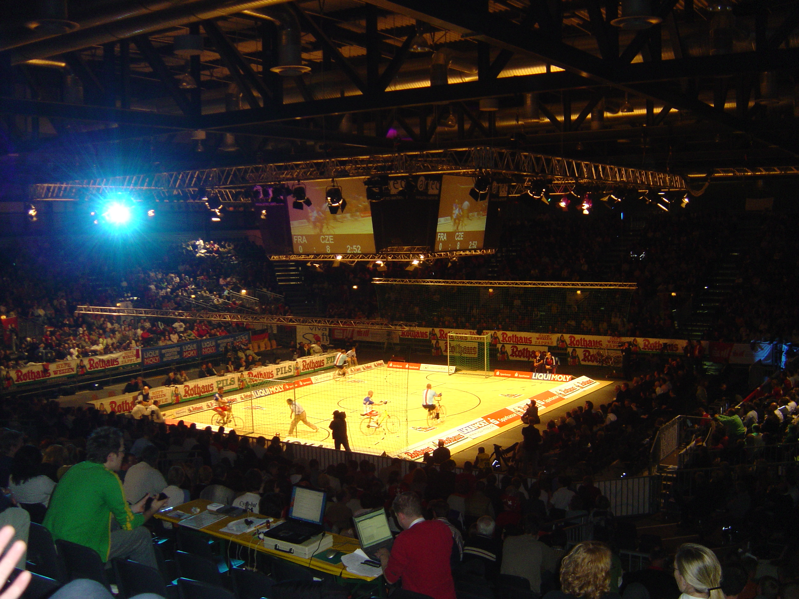 The Messe Freiburg during 2005's UCI Indoor Cycling World Championships (Cycle ball match between France and Czech Republic)